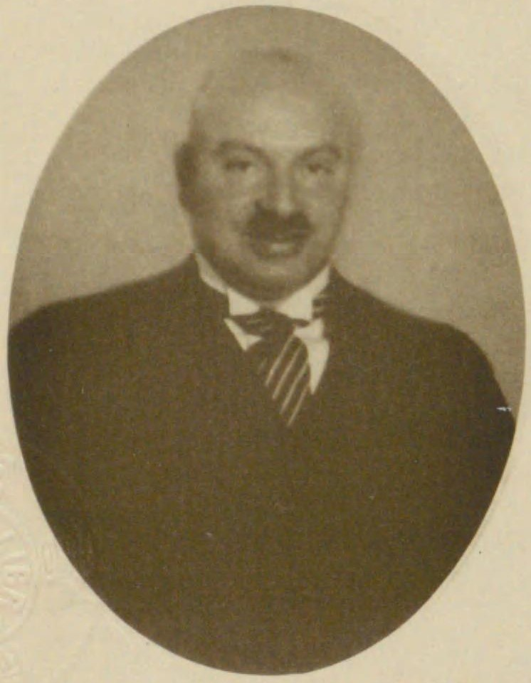 Rudolf Briske, a German railway mechanical engineer who engaged the construction of Ginza line of Tokyo Underground Railway (later Tokyo Metro).